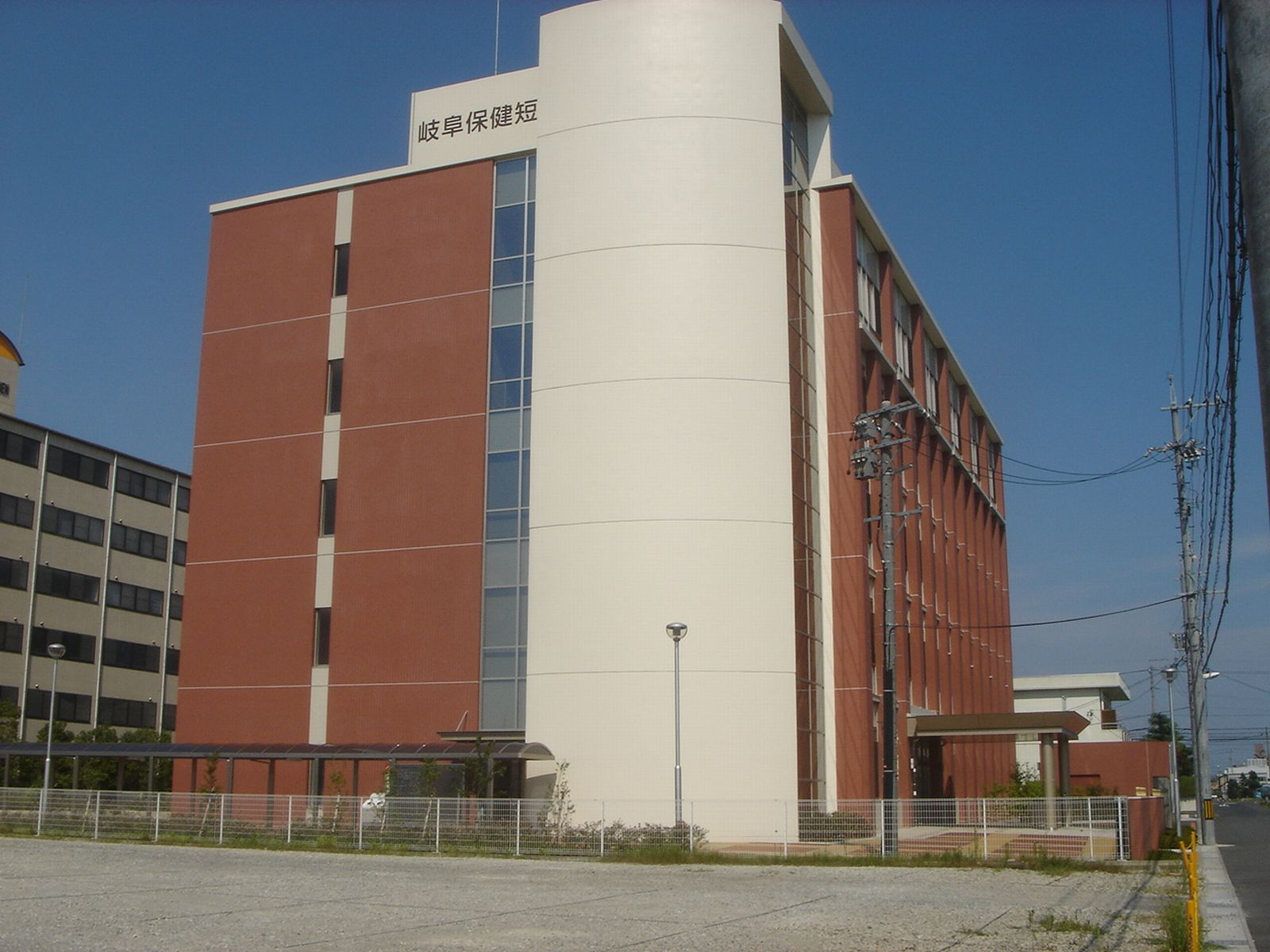 Gifu Junior College of Health Science（岐阜保健短期大学）,Gifu,Gifu,Japan(岐阜県岐阜市)で撮影。